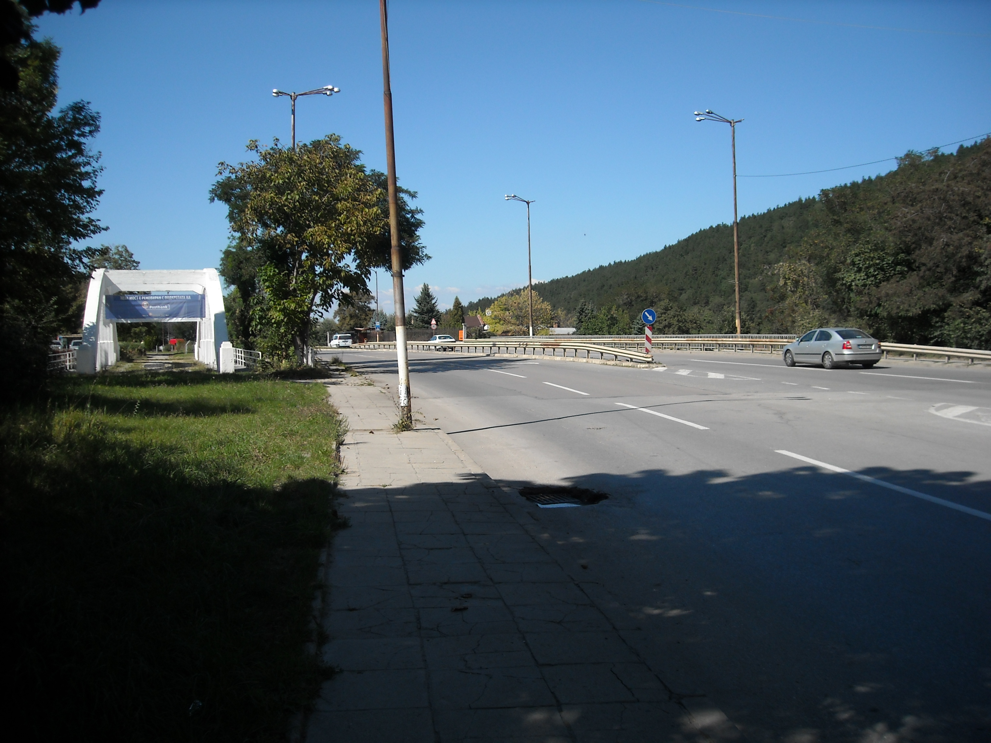 Samokovsko shosse blvd. in Pancharevo district, Sofia